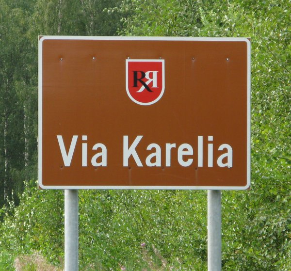 Road sign of Via Karelia -route in Finland